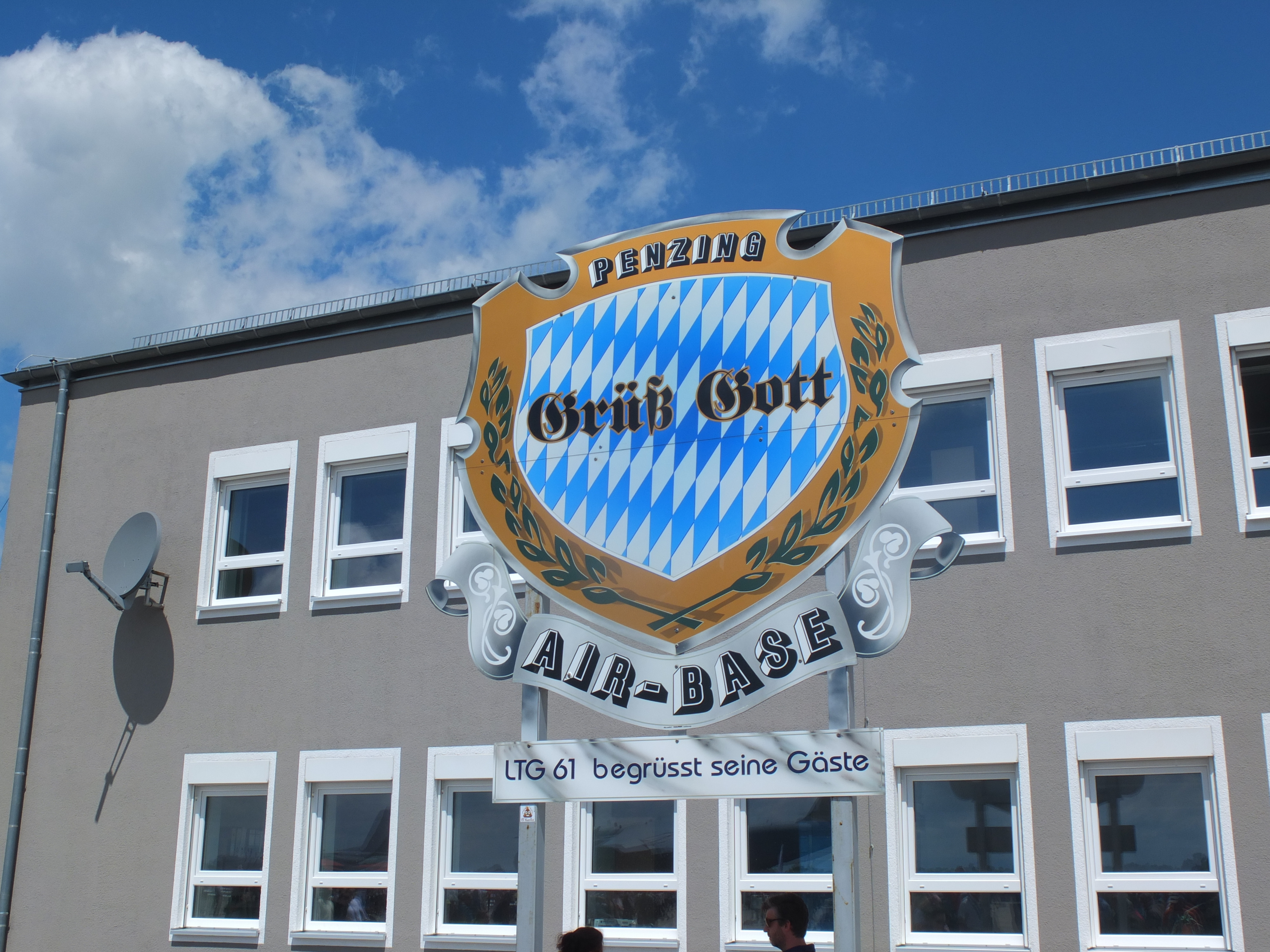 Welcome sign at Penzing Air Base in its last year as the home base of the Luftwaffe's Air Transport Wing 61